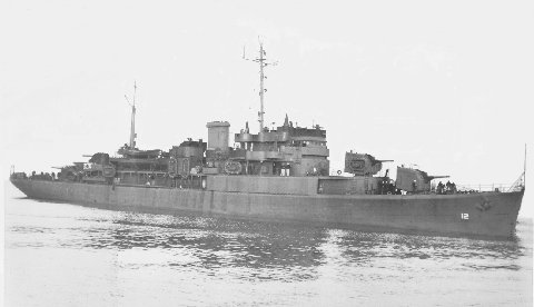 United States Navy seaplne tender USS Casco (AVP-12)